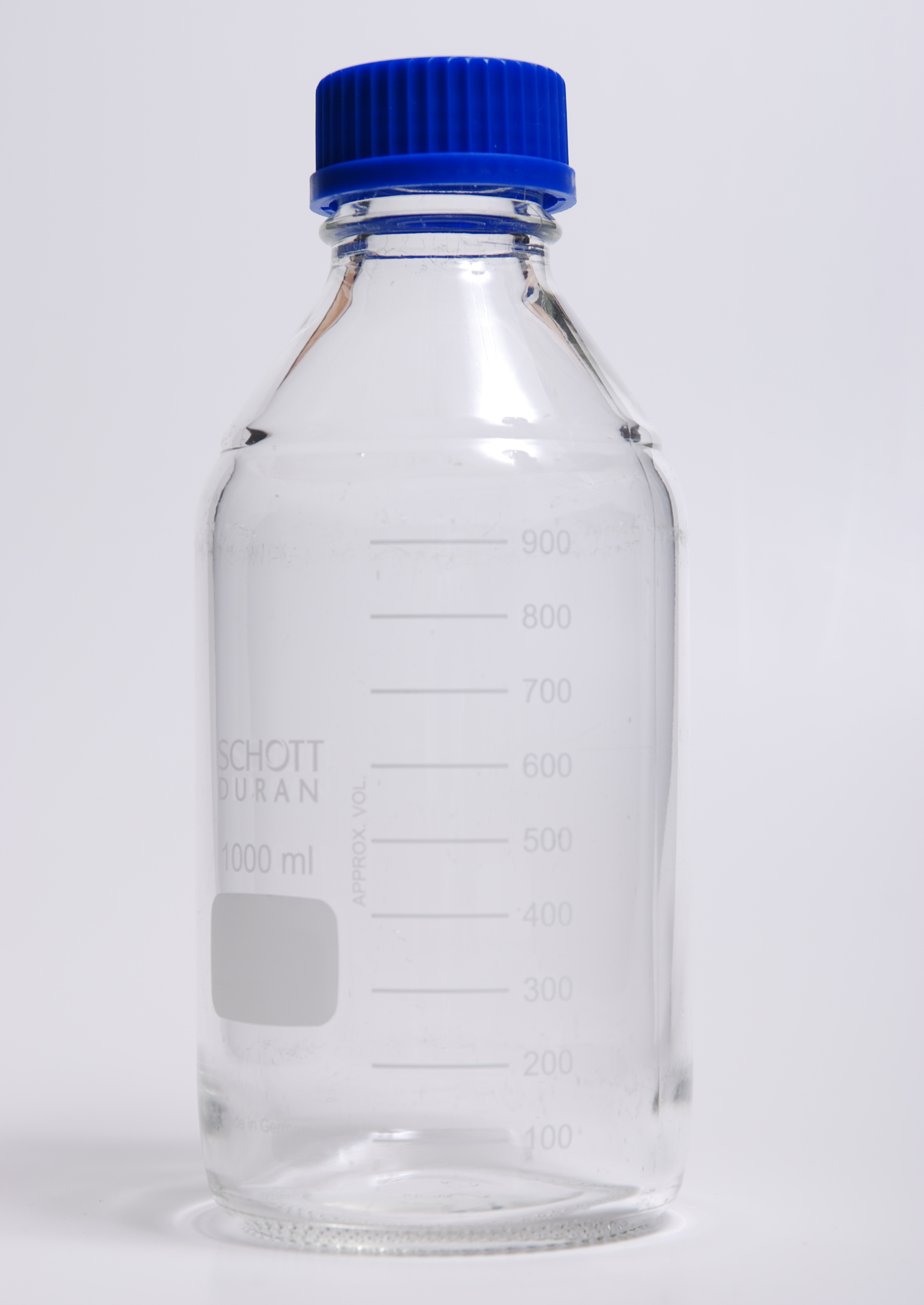 Laboratory glass bottle-1000ml